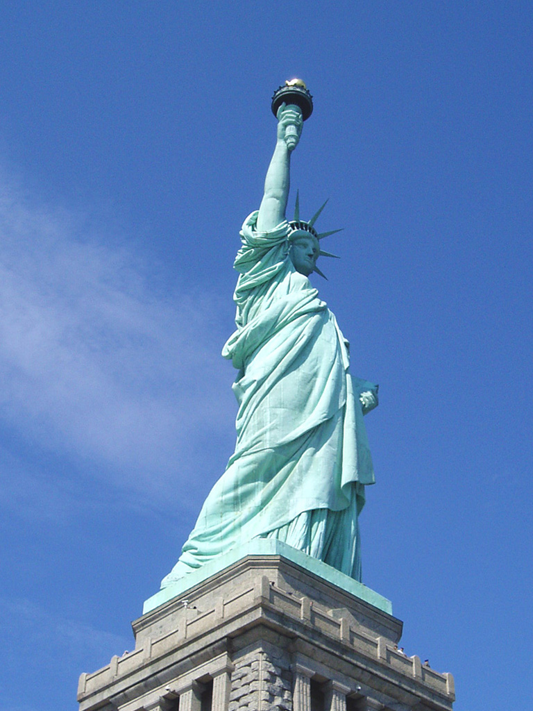 Picture taken by User:BigMacSC99 on September 9, 2005.